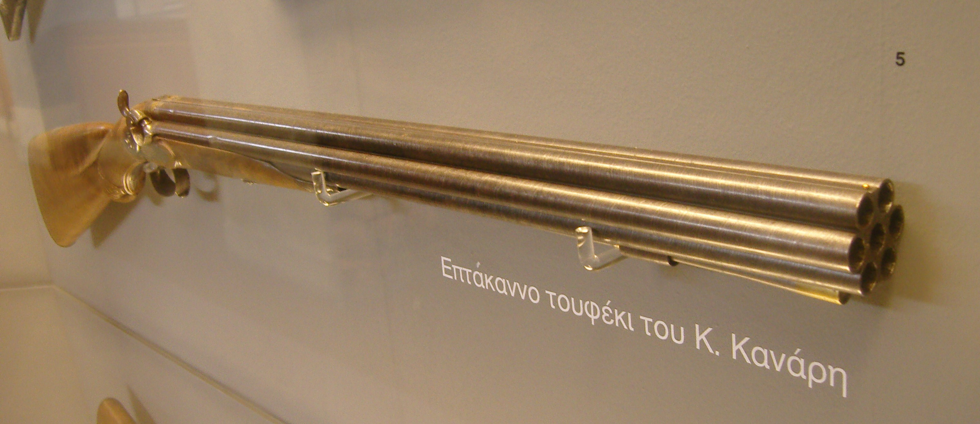 7 barrels musket of Konstantine Kanaris, National Historical Museum of Athens